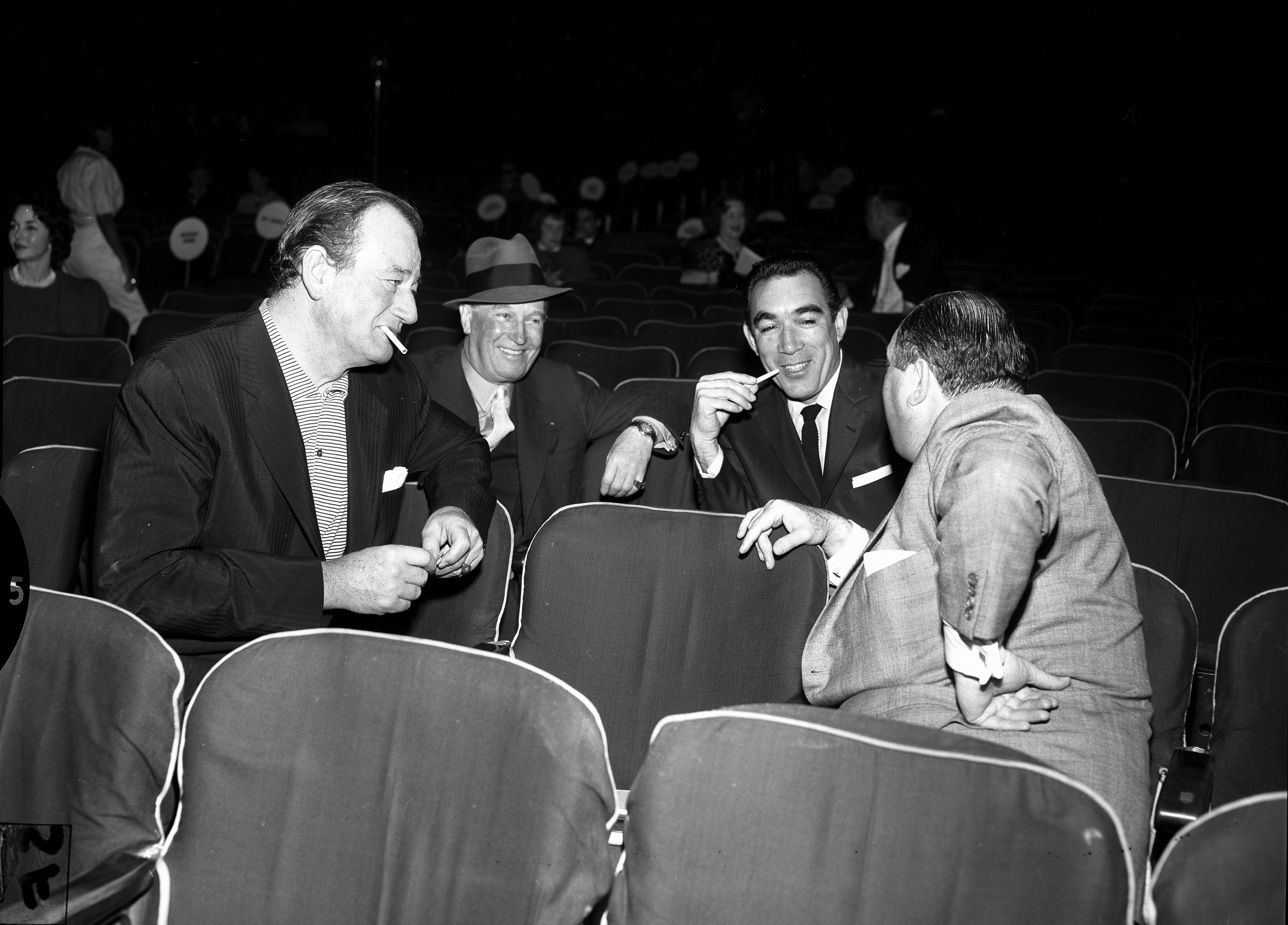 John Wayne, Maurice Chevalier, Anthony Quinn and Jerry Wald chatting during the 1958 Academy Awards rehearsals.